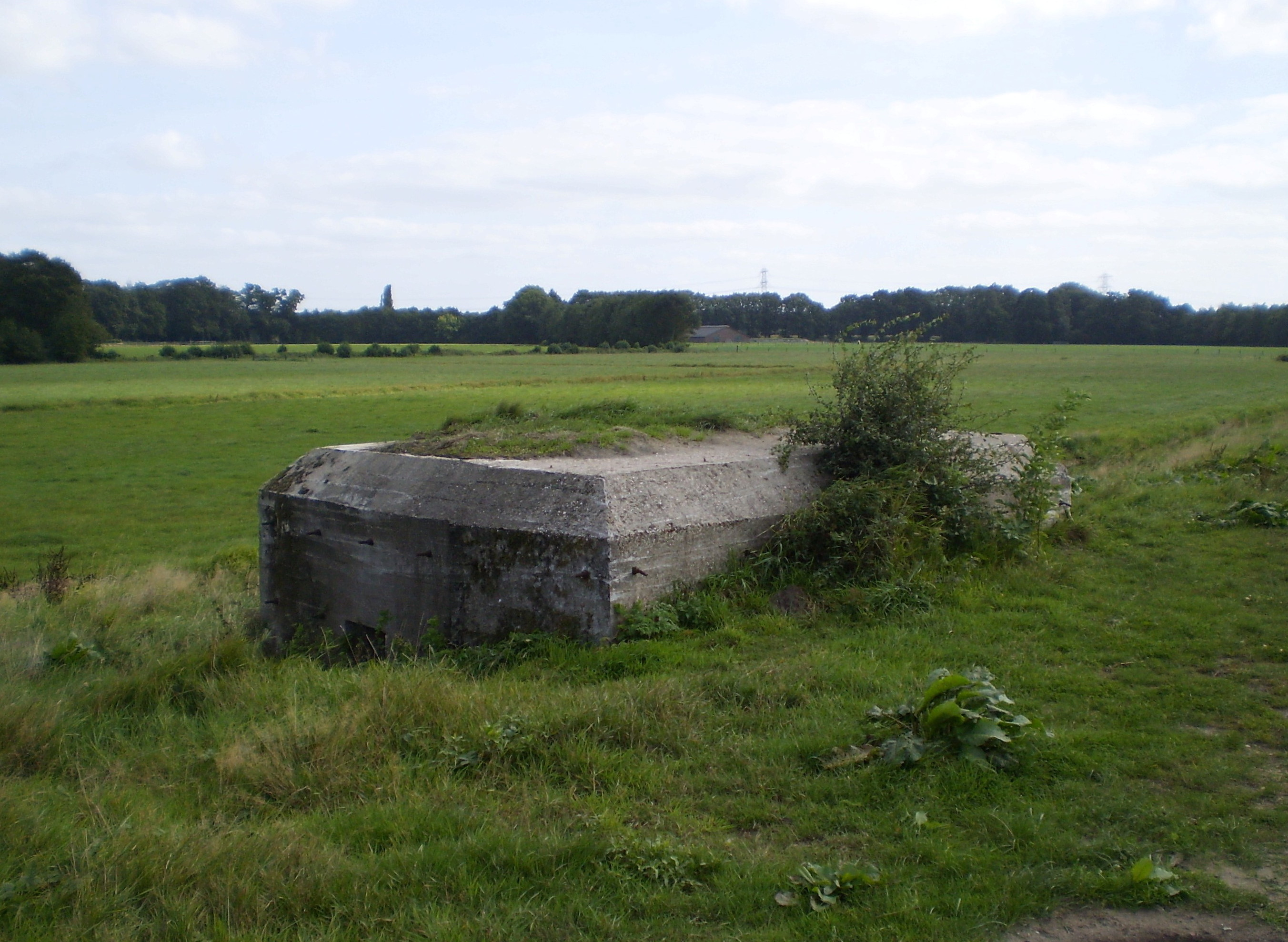 Bunker of Grebbelinie at the Eem river, west of Hoogland